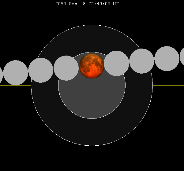 September 2090 lunar eclipse chart of moon's path through the earth's shadow. thumb